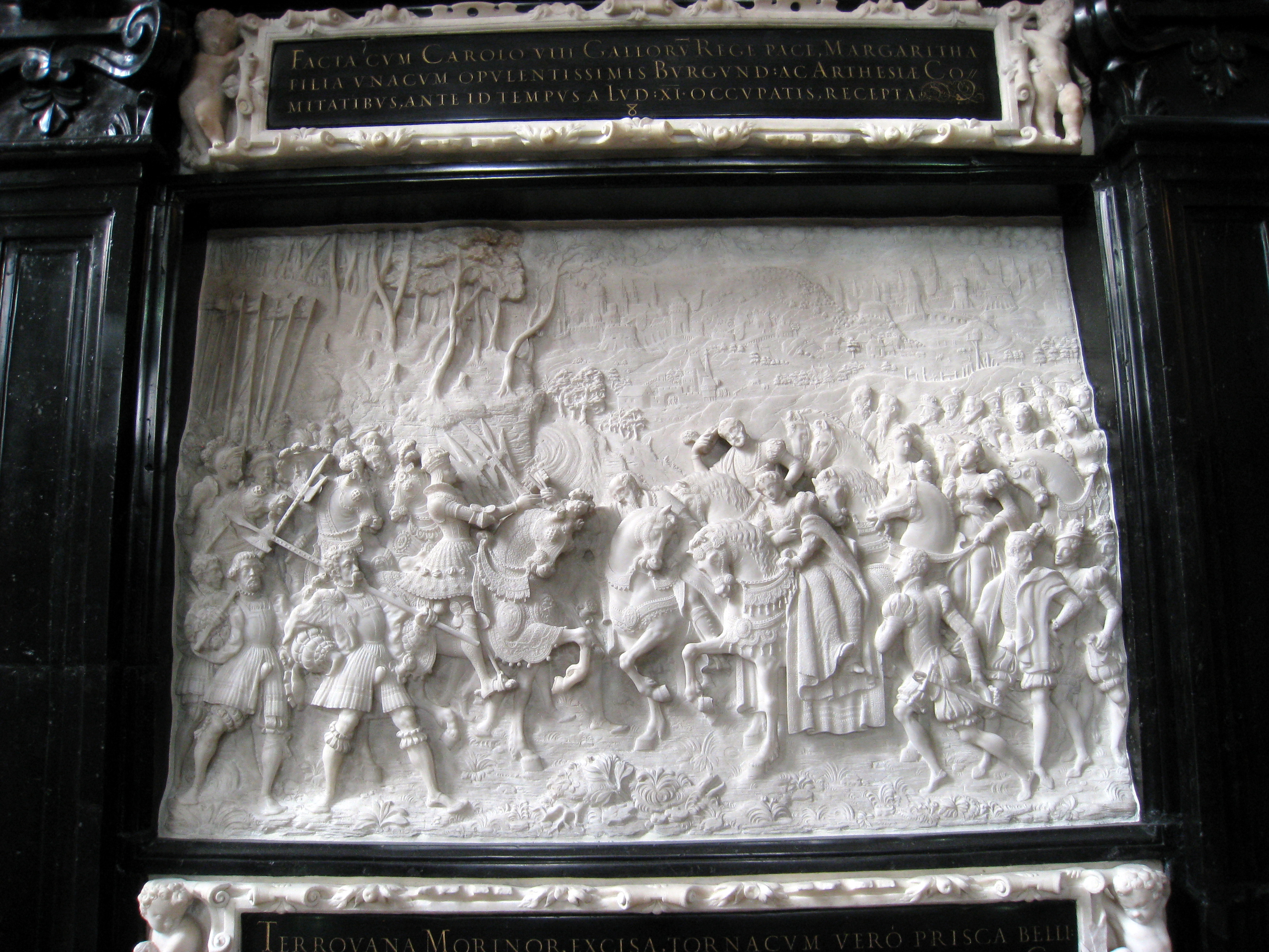 Hofkirche, Innsbruck, Austria - cenotaph of Maximilian I - relief by Alexander Colin based on wood carvings by Albrecht Durer.